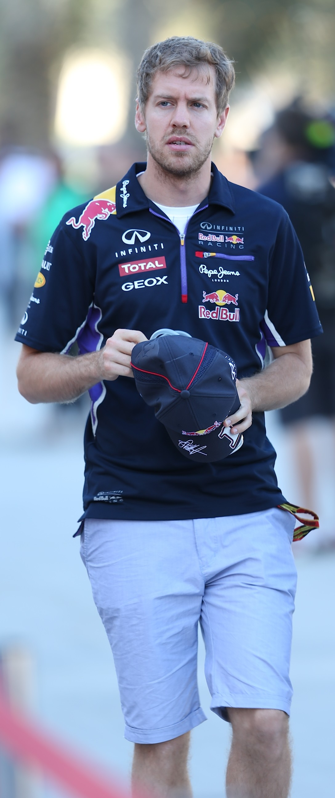 Sebastian Vettel at the 2014 Bahrain Grand Prix